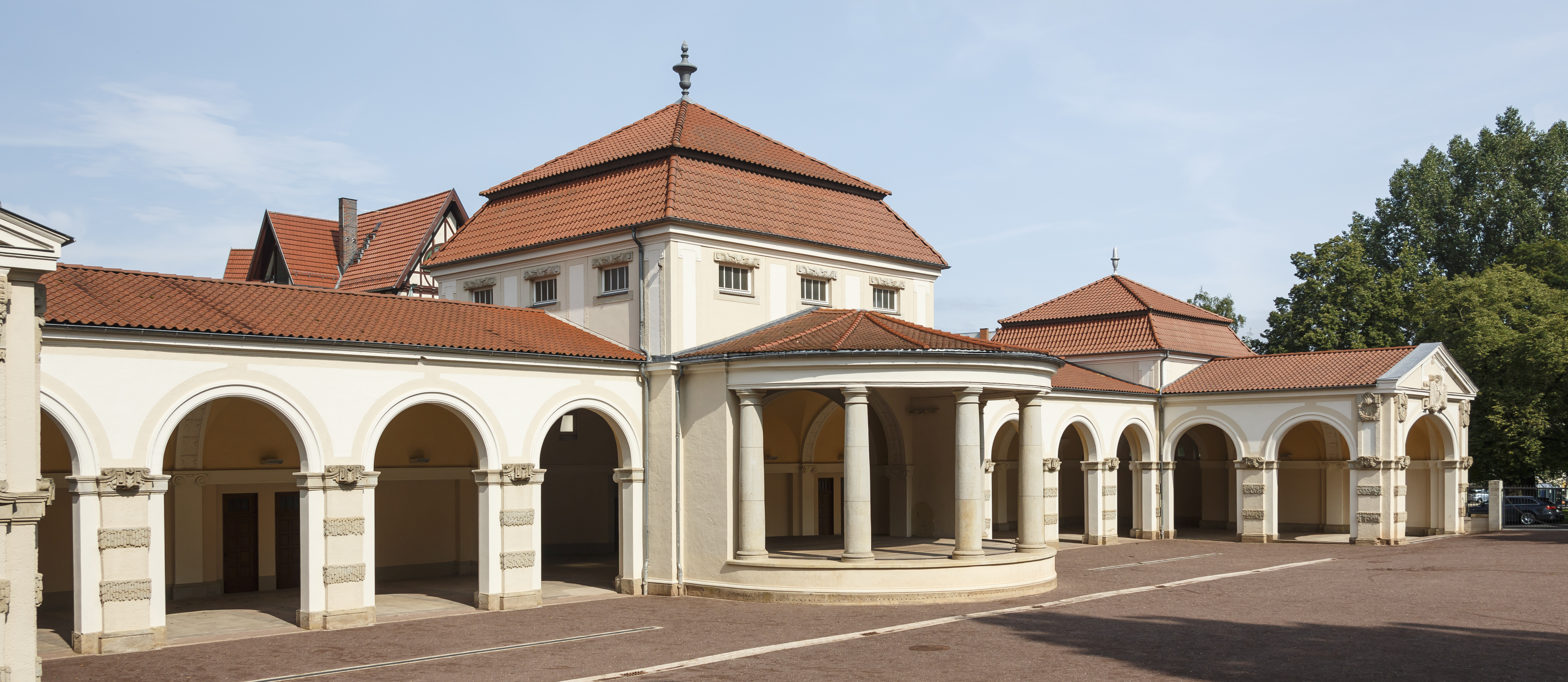 Eisenach, Germany: "Wandelhalle", a historic health spa facility including drinking of the natural spring waters. It was built in 1906 by architect Johannes Bollert.